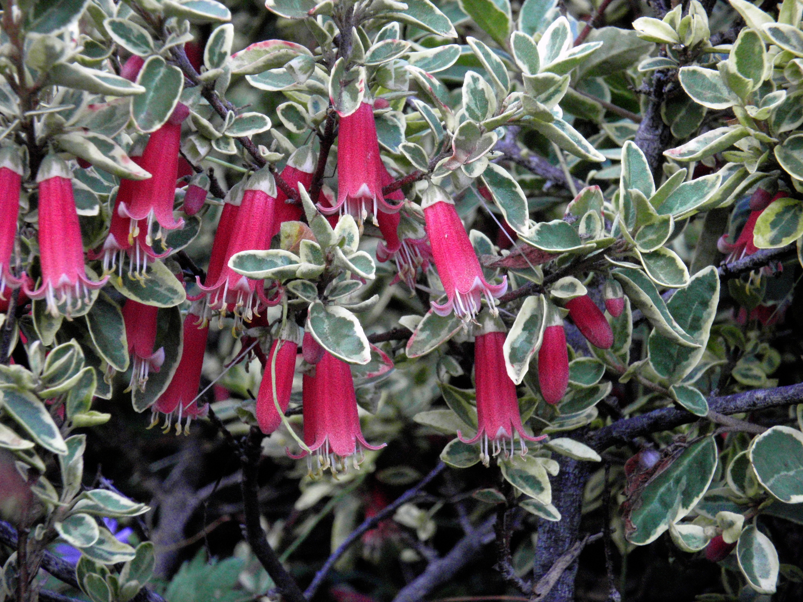 Correa: Wyn's Wonder. Family = Rutaceae.